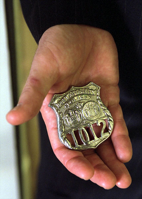 Badge number 1012, of Port Authority of New York and New Jersey Police Officer and 9/11 attack victim George Howard. source url, found here